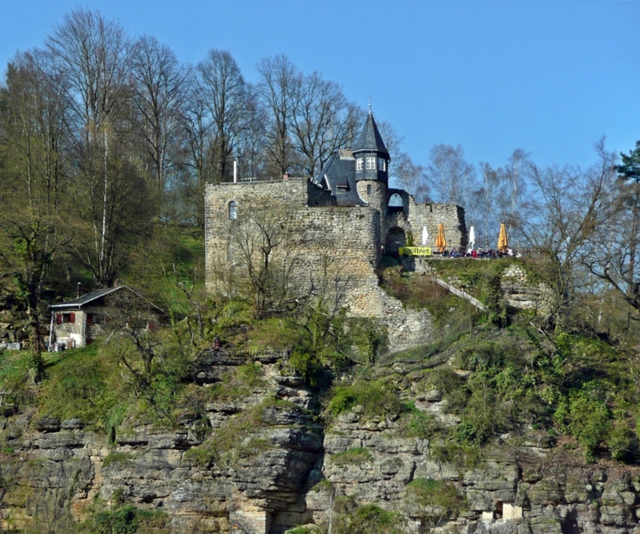 This photo shows Altrathen Castle in the Saxon Switzerland.